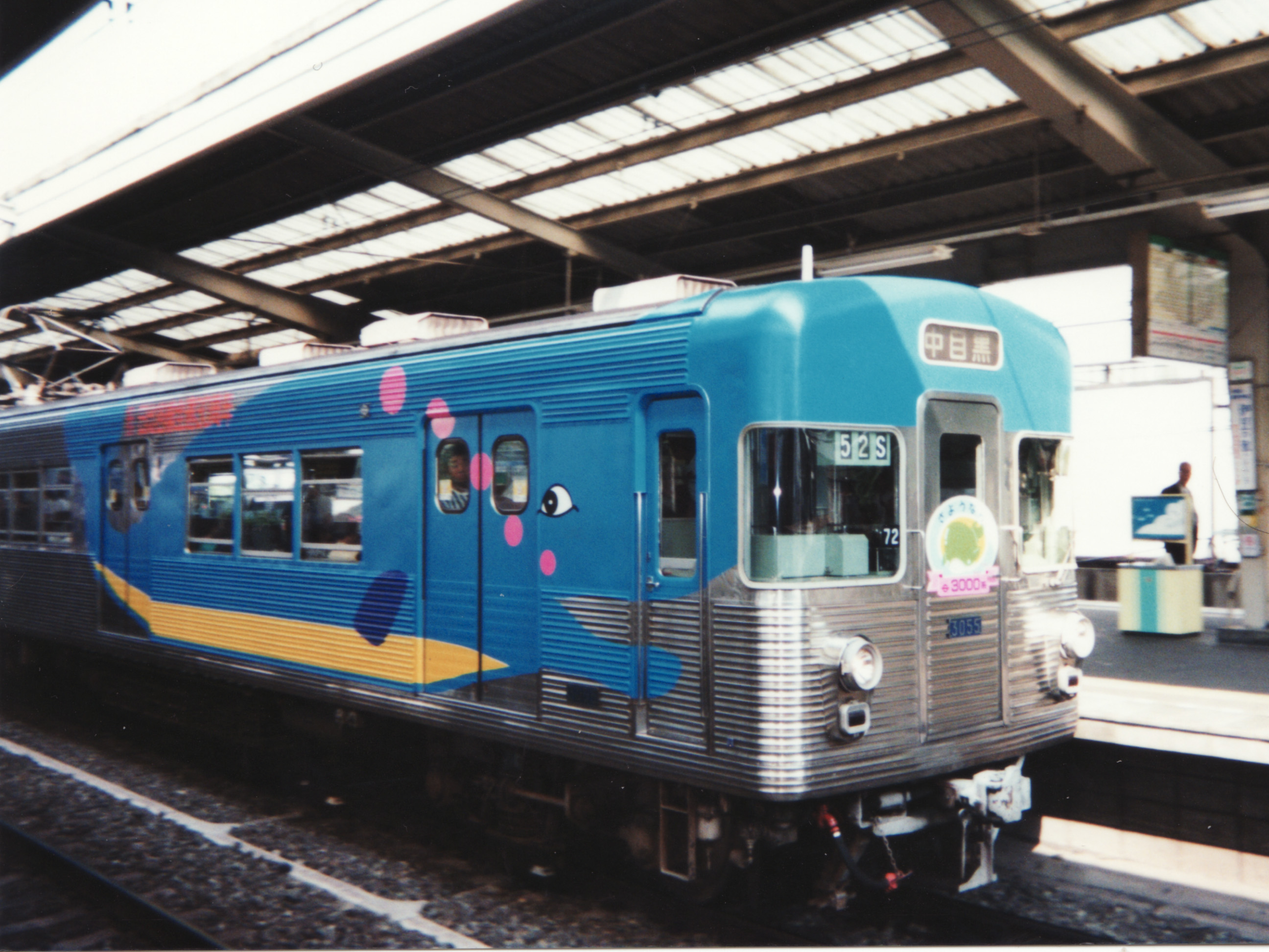 TRTA 3000 series EMU set 3055 in a special whale livery for its farewell run